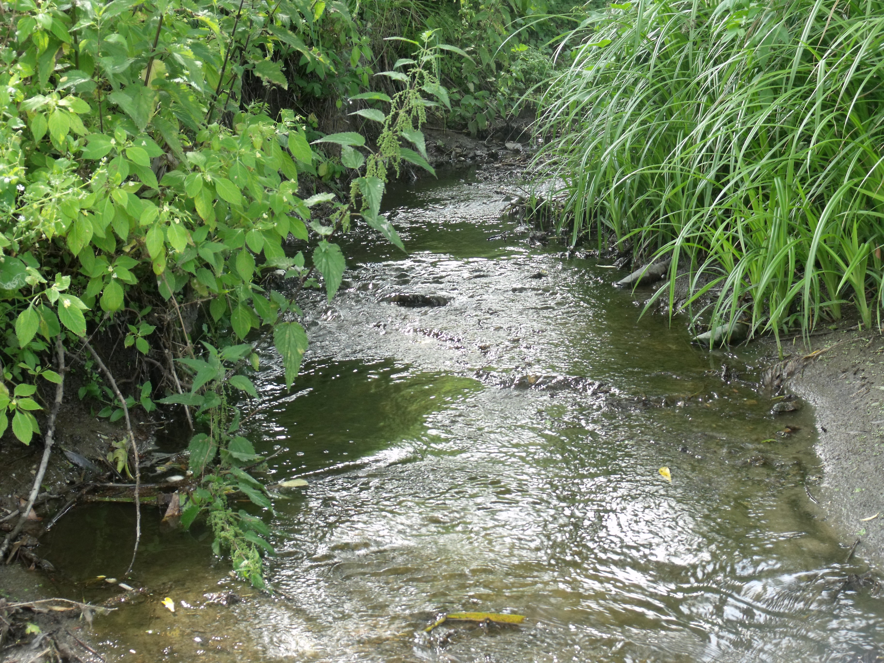 R._Vita,_Khotiv